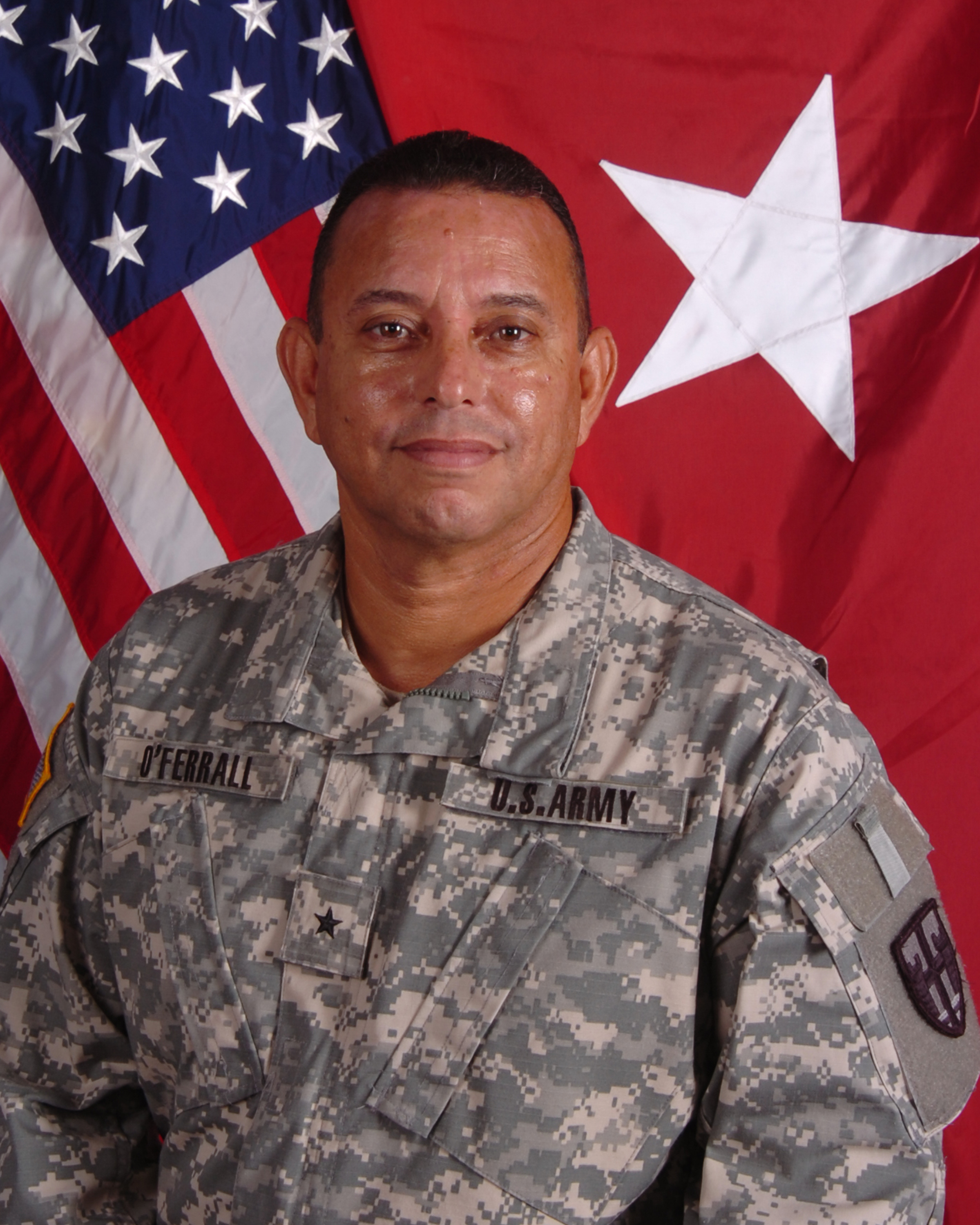 Brig. Gen. Rafael O'Ferrall as Deputy Commander, Joint Task Force Guantanamo